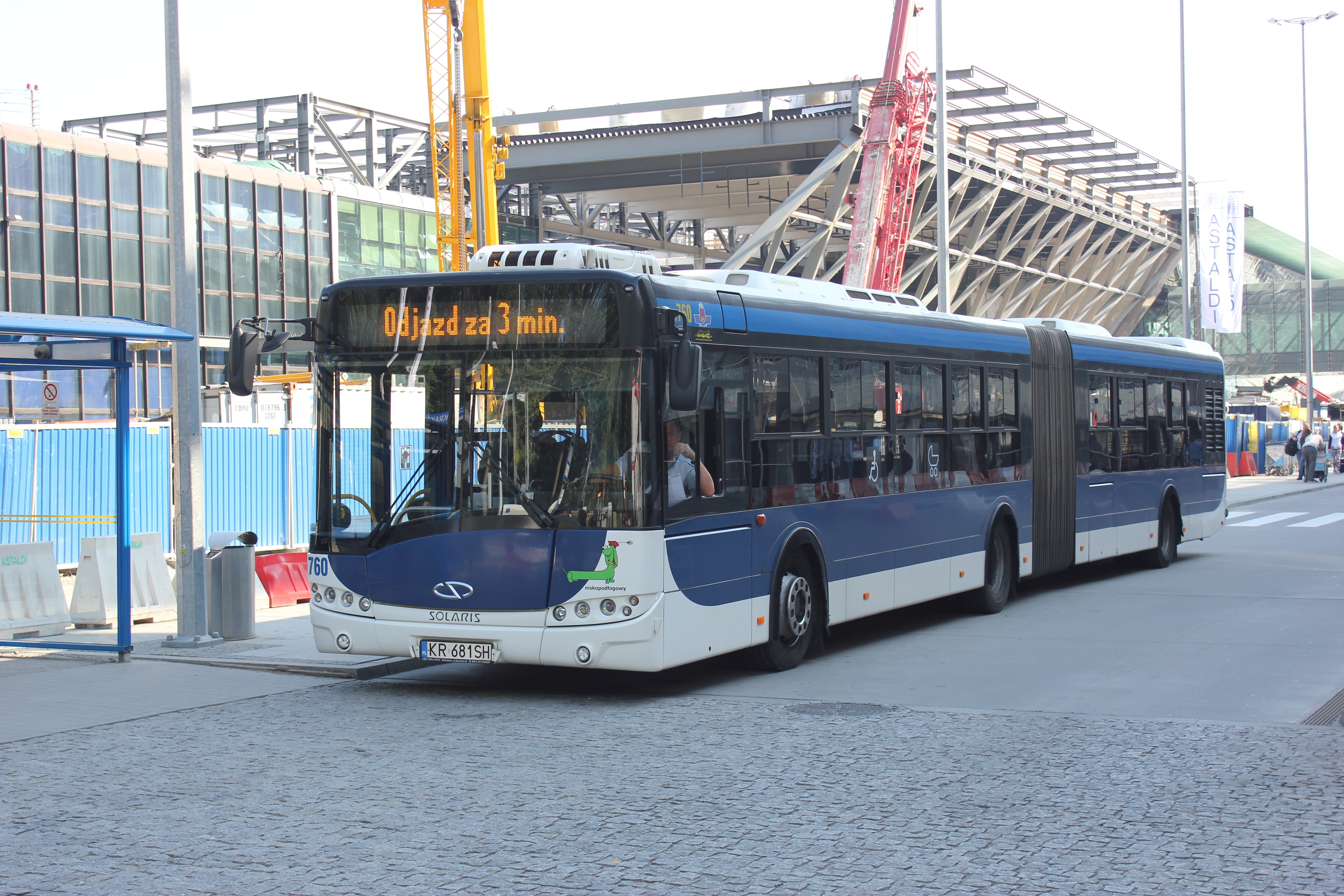 Balice - Kraków-Balice John Paul II International Airport - Solaris Urbino 18 bus #PR760 on line No. 292